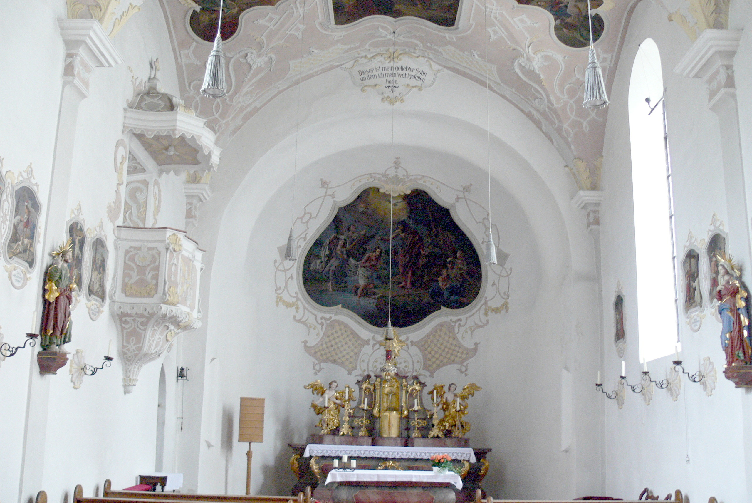 Hospital church Saint John the Baptist in Bad Reichenhall - Interior.